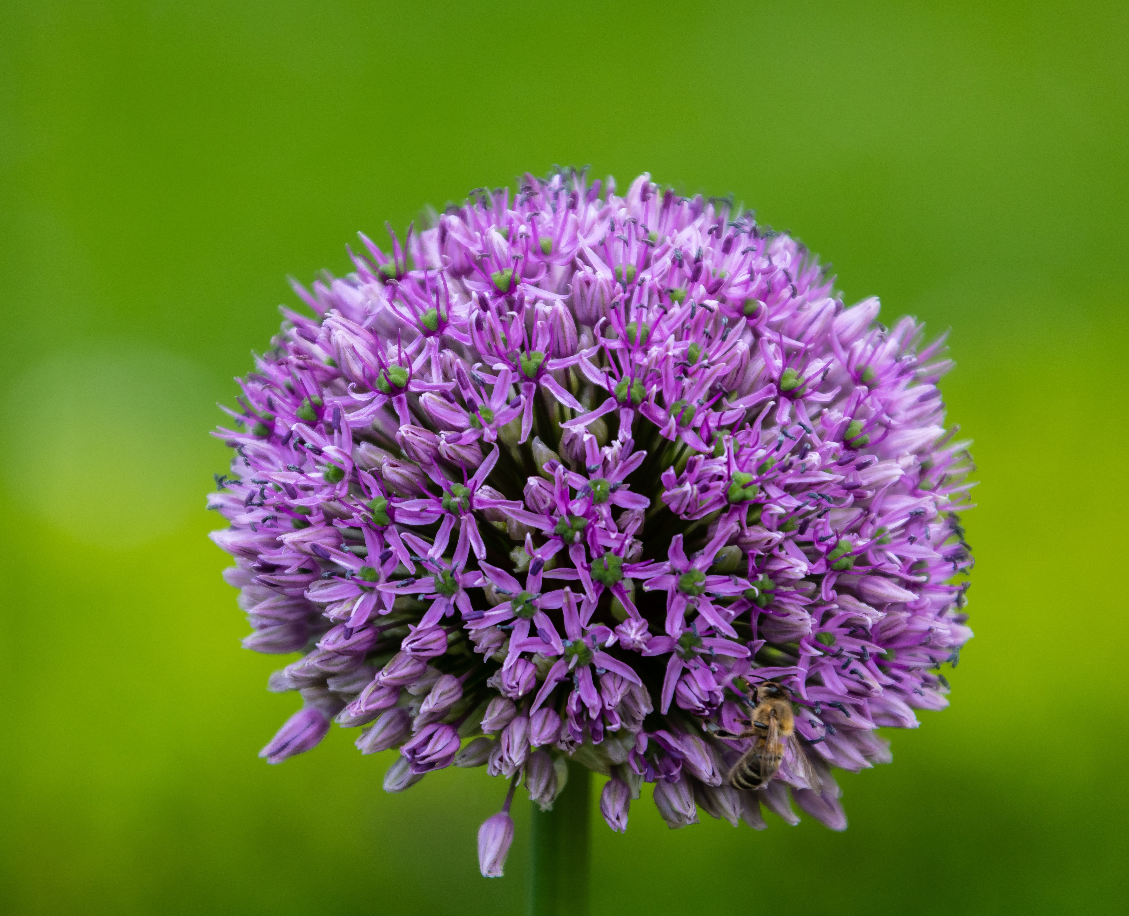 Allium 'Gladiator', Riedergarten, Rosenheim, Germany